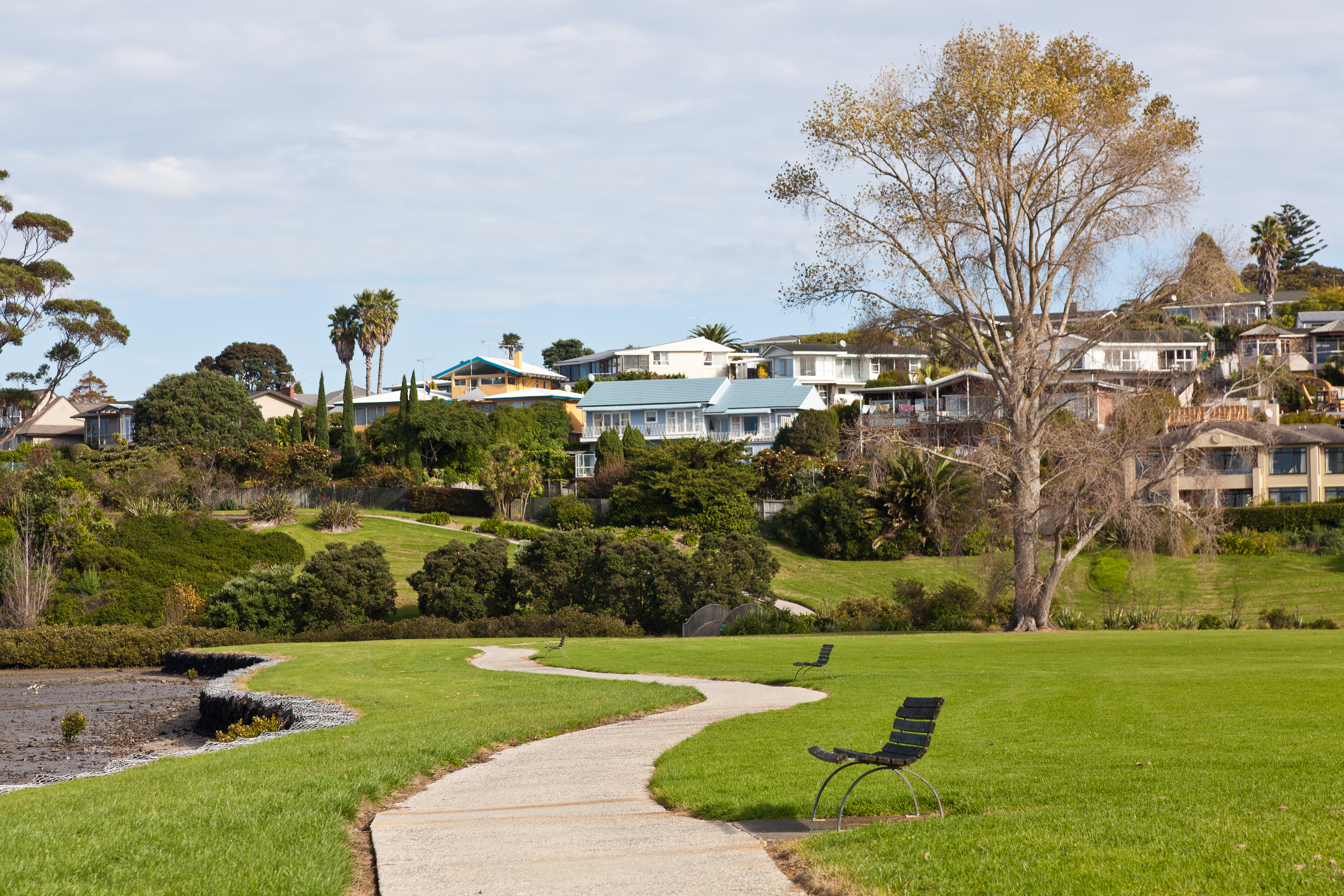 Glendowie in Auckland New Zealand